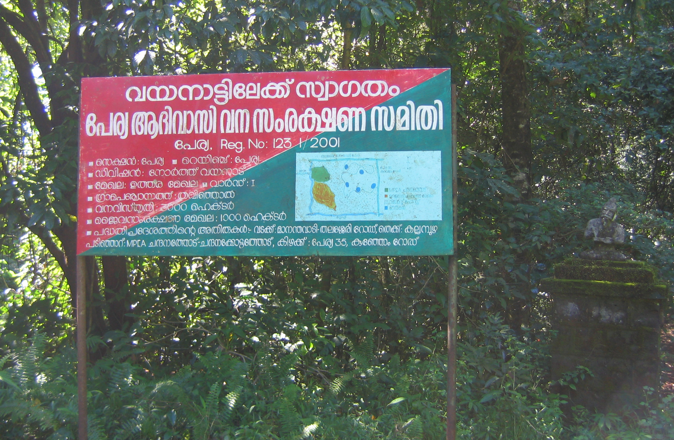 Invitation borad to Wayanad from Kannur District